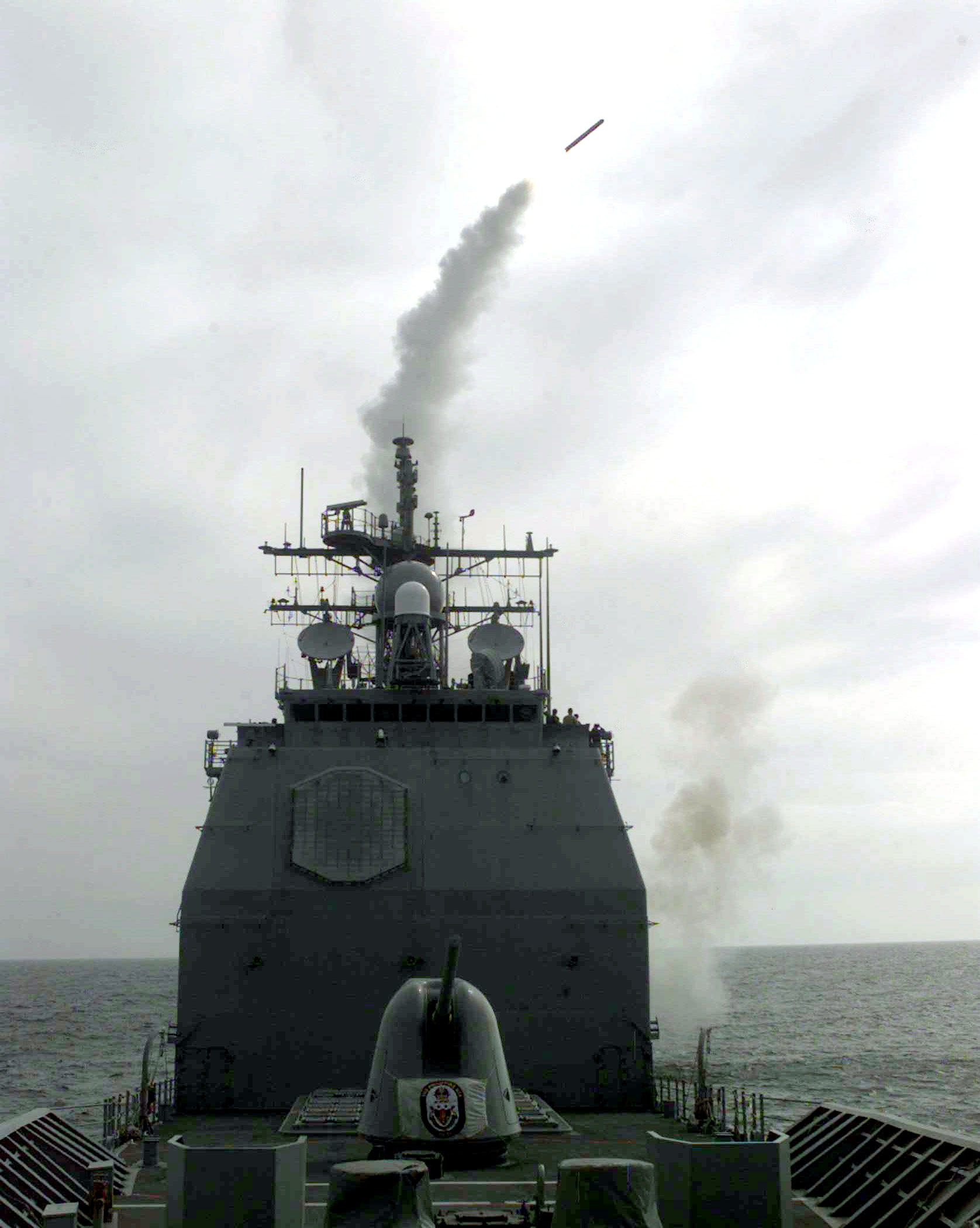 A surface launched Tomahawk cruise missile leaves the U.S. Navy cruiser USS Philippine Sea (CG 58) headed for a target in Kosovo on day three of NATO Operation Allied Force on March 26, 1999. This is the first daylight launch of a Tomahawk since the operation began. The U.S. Navy cruiser is operating in the Adriatic Sea in support of Allied Force.